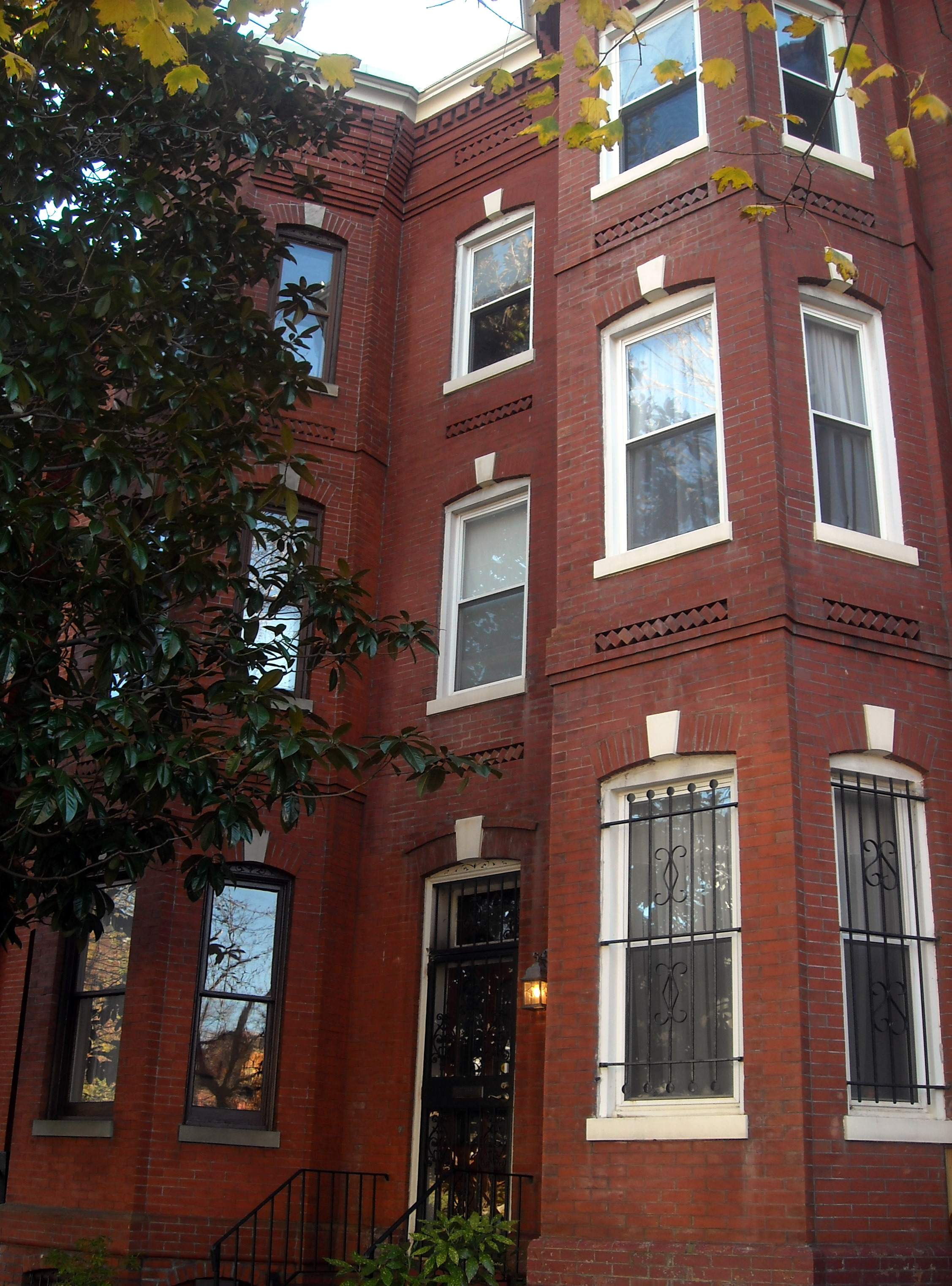 The John A. Lankford Residence and Office, located at 1448 Q Street, N.W., in the Logan Circle neighborhood of Washington, D.C. Built in 1881 by David Alvindon, the Queen Anne-style row house served as the private residence and office of John Anderson Lankford, D.C.'s first, registered, African American architect and the first, licensed, African American architect in Virginia. His designs include the True Reformer Building, Lankford's first major commission, listed on the National Register of Historic Places (NRHP) in 1989. The John A. Lankford Residence and Office is designated as a contributing property to the Fourteenth Street Historic District, listed on the NRHP in 1994.